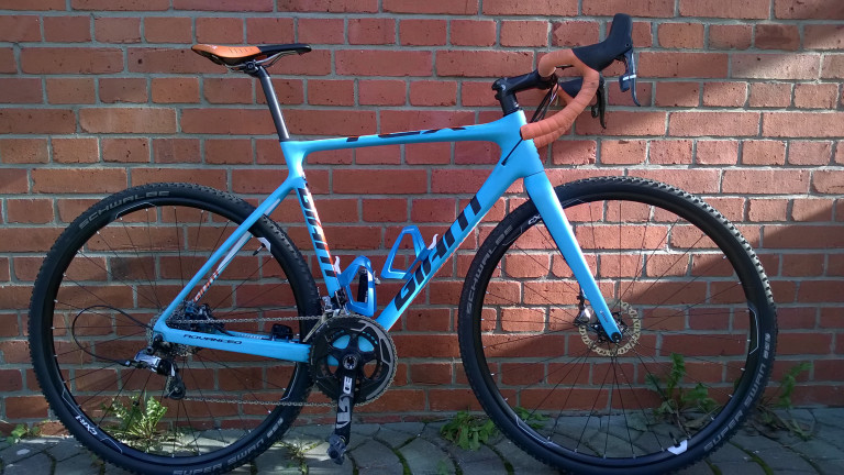 Cyclocross bike